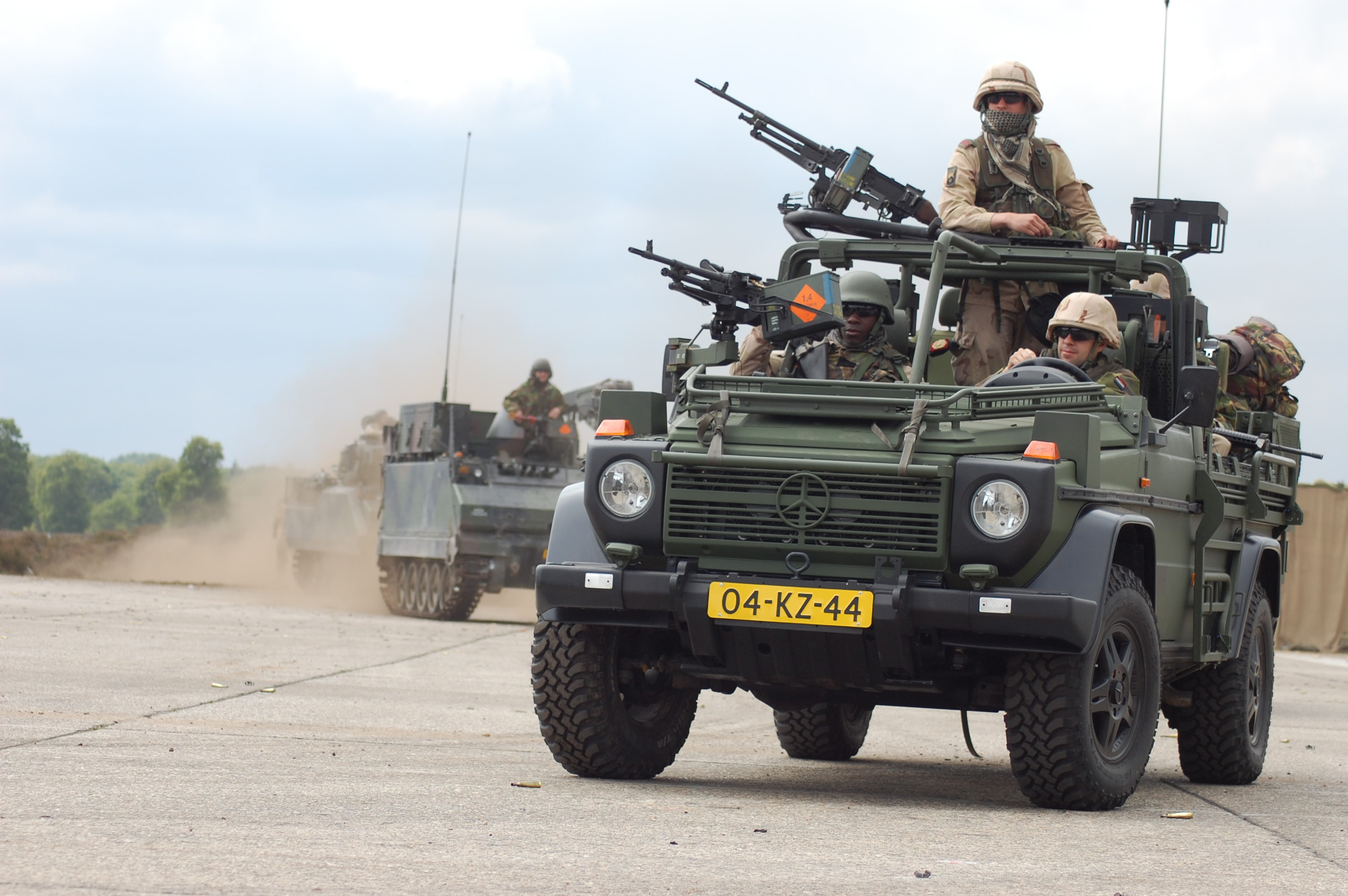 A convoy by the Dutch Army. W461 290GD and AIFV